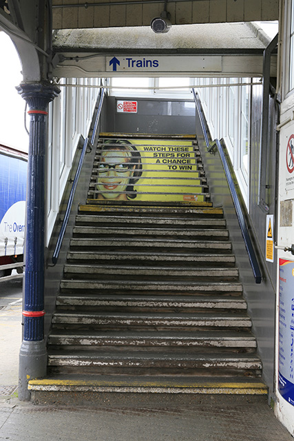 Imaginative advertising on Brockenhurst Station. You just can't get to the trains without seeing this.